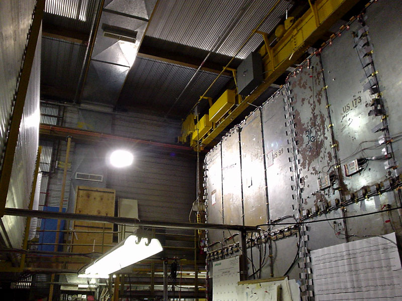 Found at e-mailed the webmaster to confirm this status and got no reply after waiting for a month. I interpret this to mean that there are no objections.